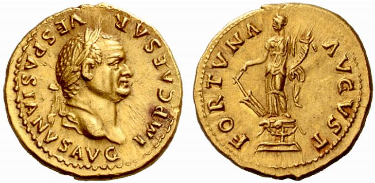 Aureus 75-79, AV 7.30 g. IMP CAESAR VESPASIANVS AVG Laureate head r. Rev. FORTVNA – AVGVST Fortuna standing l. on base decorated with wreath and ram’s heads, holding rudder in r. hand and cornucopiae in l. RIC 123. BMC 275. CBN 246. Calicó 631.